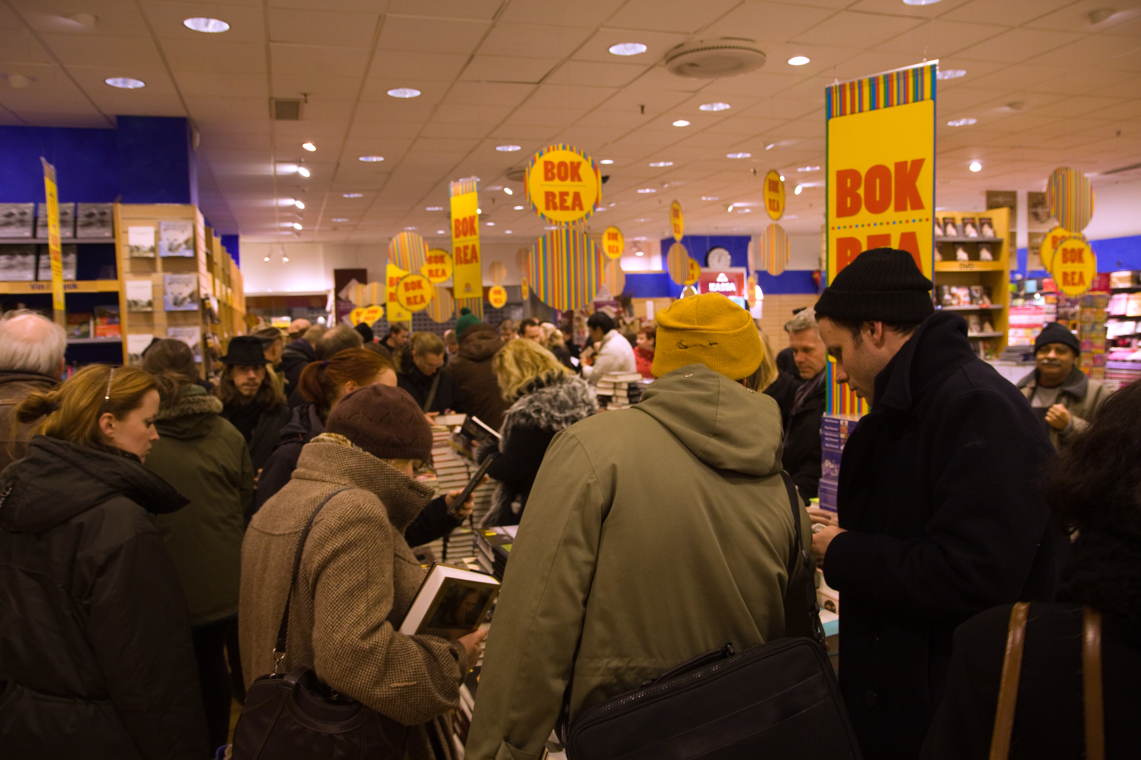 People in a store at midnight, the start of the yearly book sale in Sweden